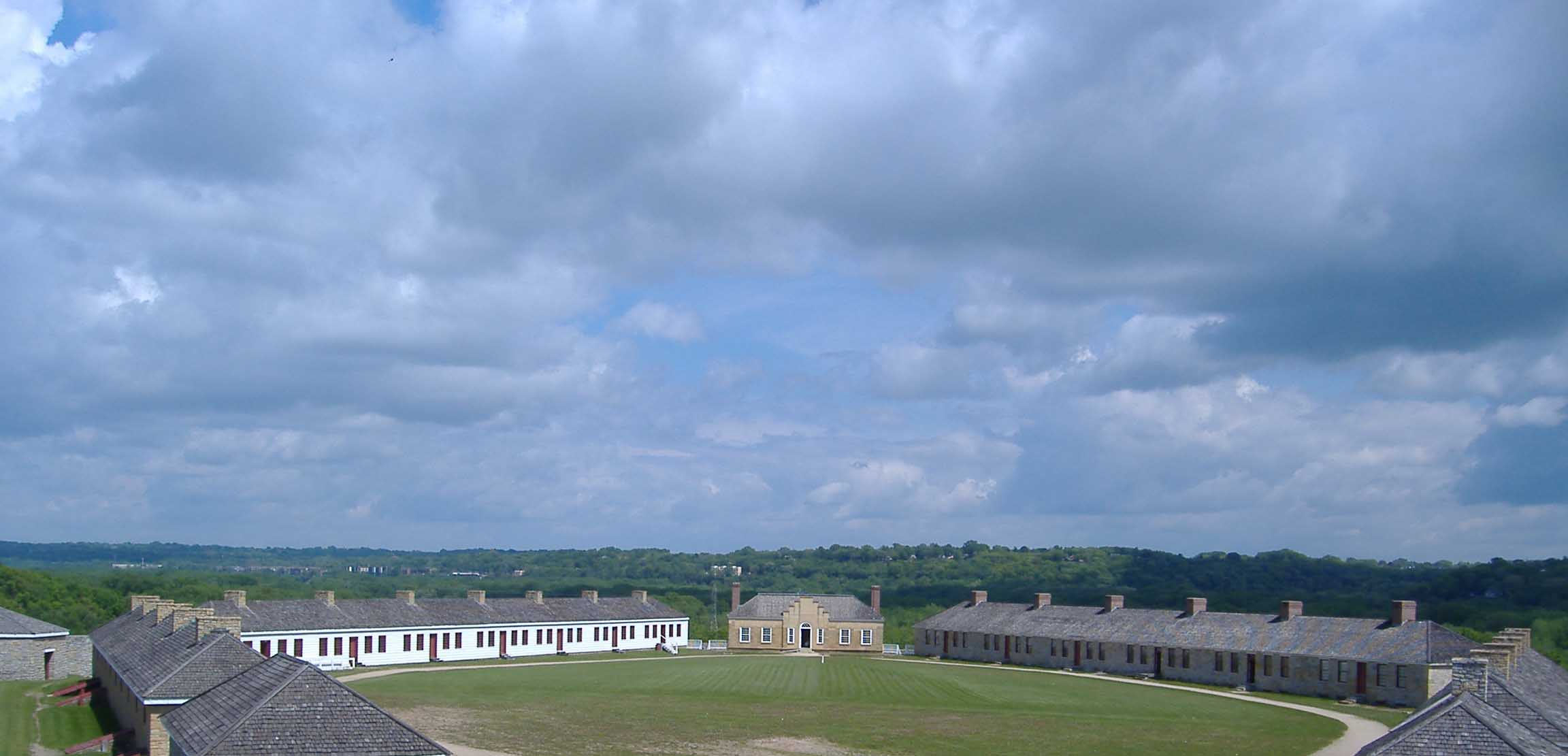 Fort Selling grounds (Minnesota, USA)